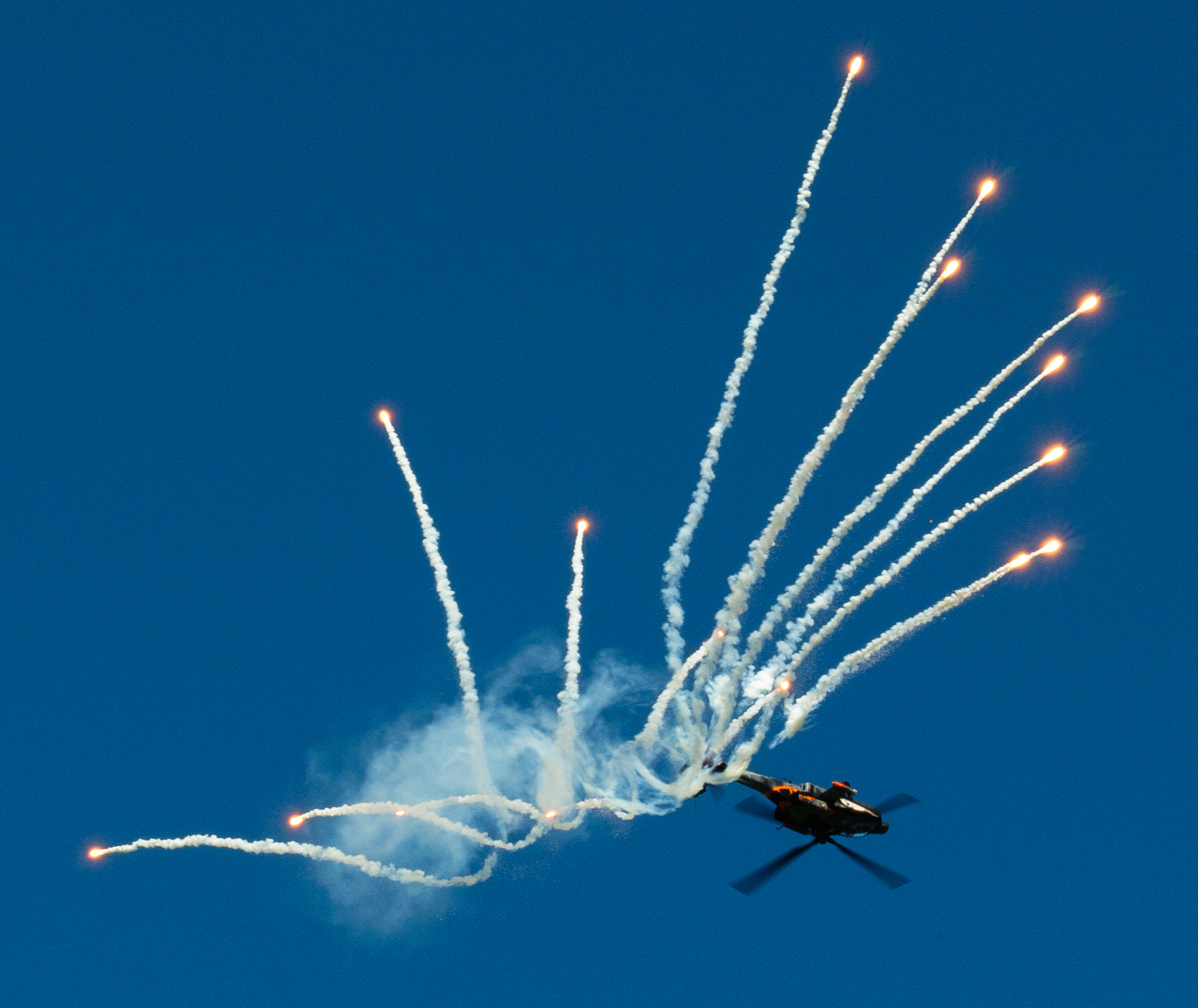 RNLAF Apache Solo Display. Major Roland “Wally” Blankenspoor and Captain Paul ‘Wokkel’ Webbink at the controls.